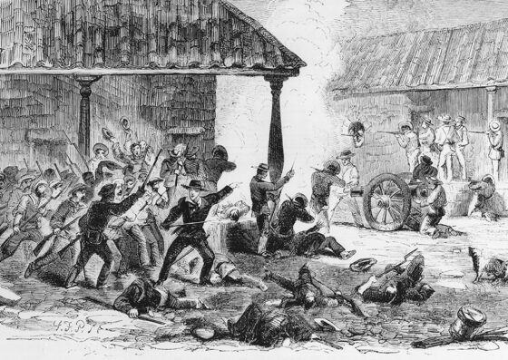 Title: Gen. Wm. Walker's Exp. in Nicaragua] Scene in the Battle of Rivas, from a sketch made on the spot by our artist correspondent Abstract/medium: 1 print : wood engraving.